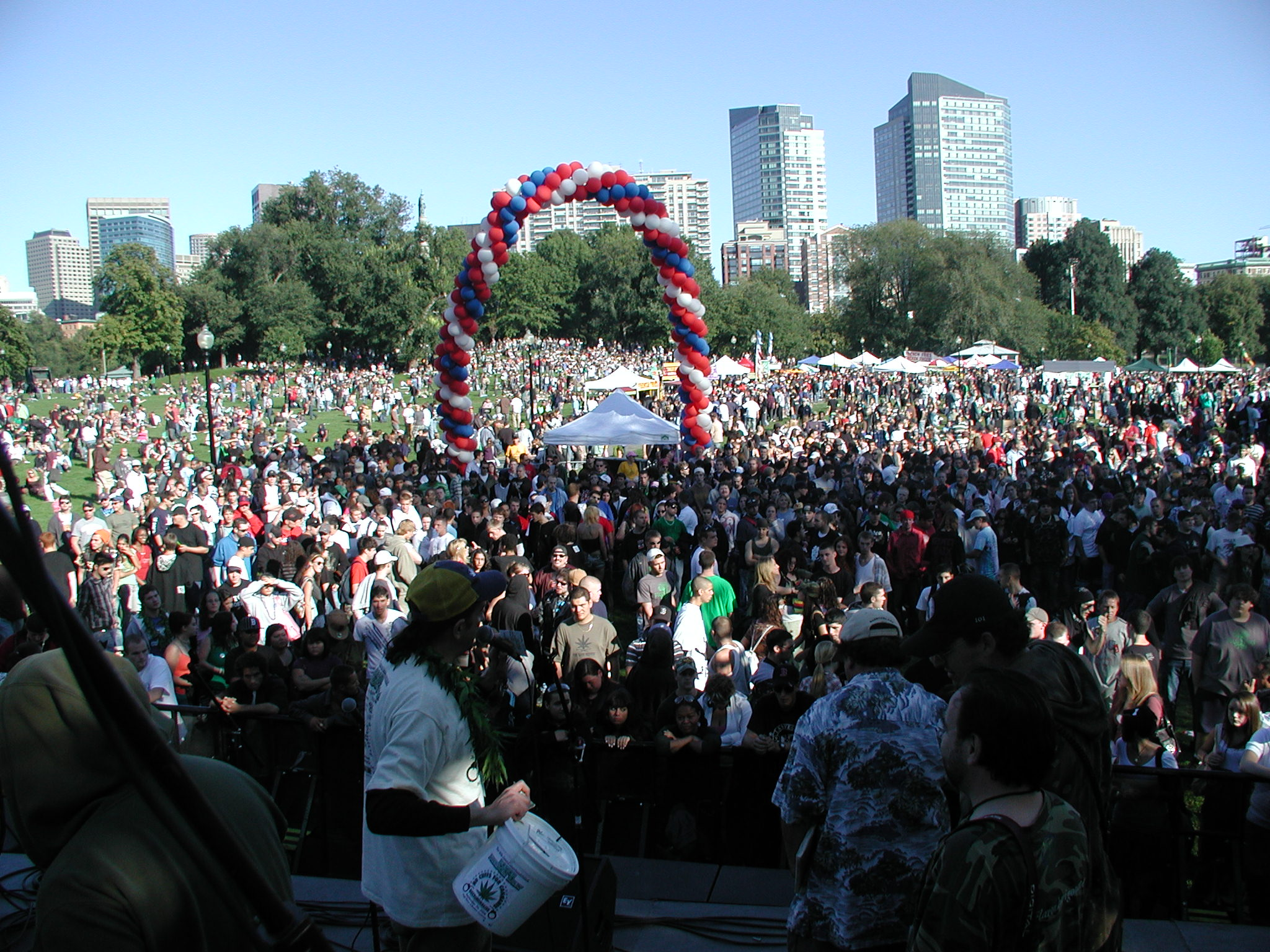 Photo of crowd from stage at Freedom Rally 2008 on Boston Common, the 19th annual Freedom Rally for marijuana law reform, sponsored by MASS CANN/NORML